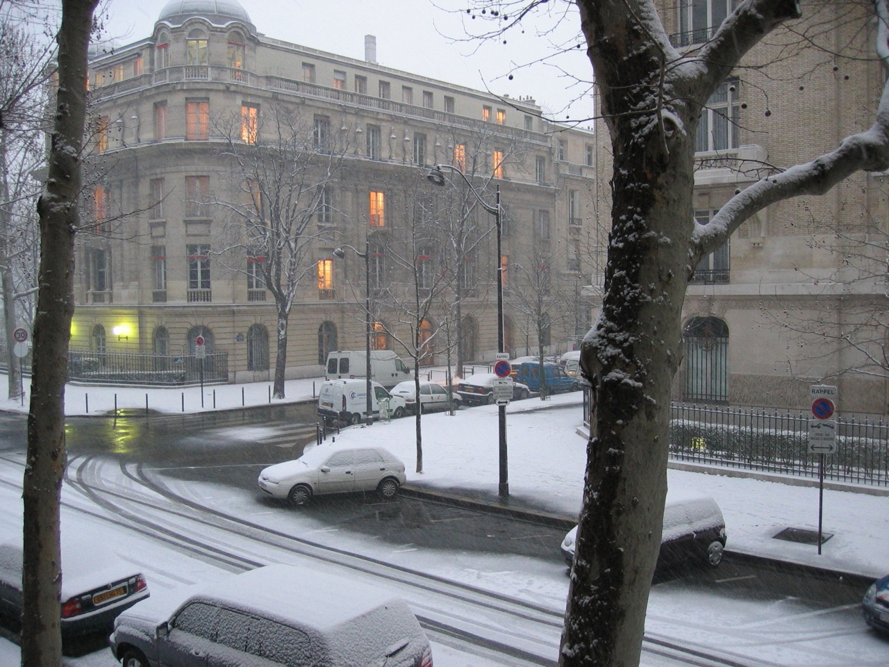 Snowy street scene in Paris.Snowy Paris